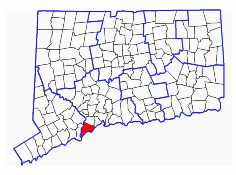 Subject: Map of Connecticut Townships with Milford highlighted. Derived from sub-county SVG map of Connecticut at Libre Map Project using Adobe SVG viewer and Gimp 2.2.1.3